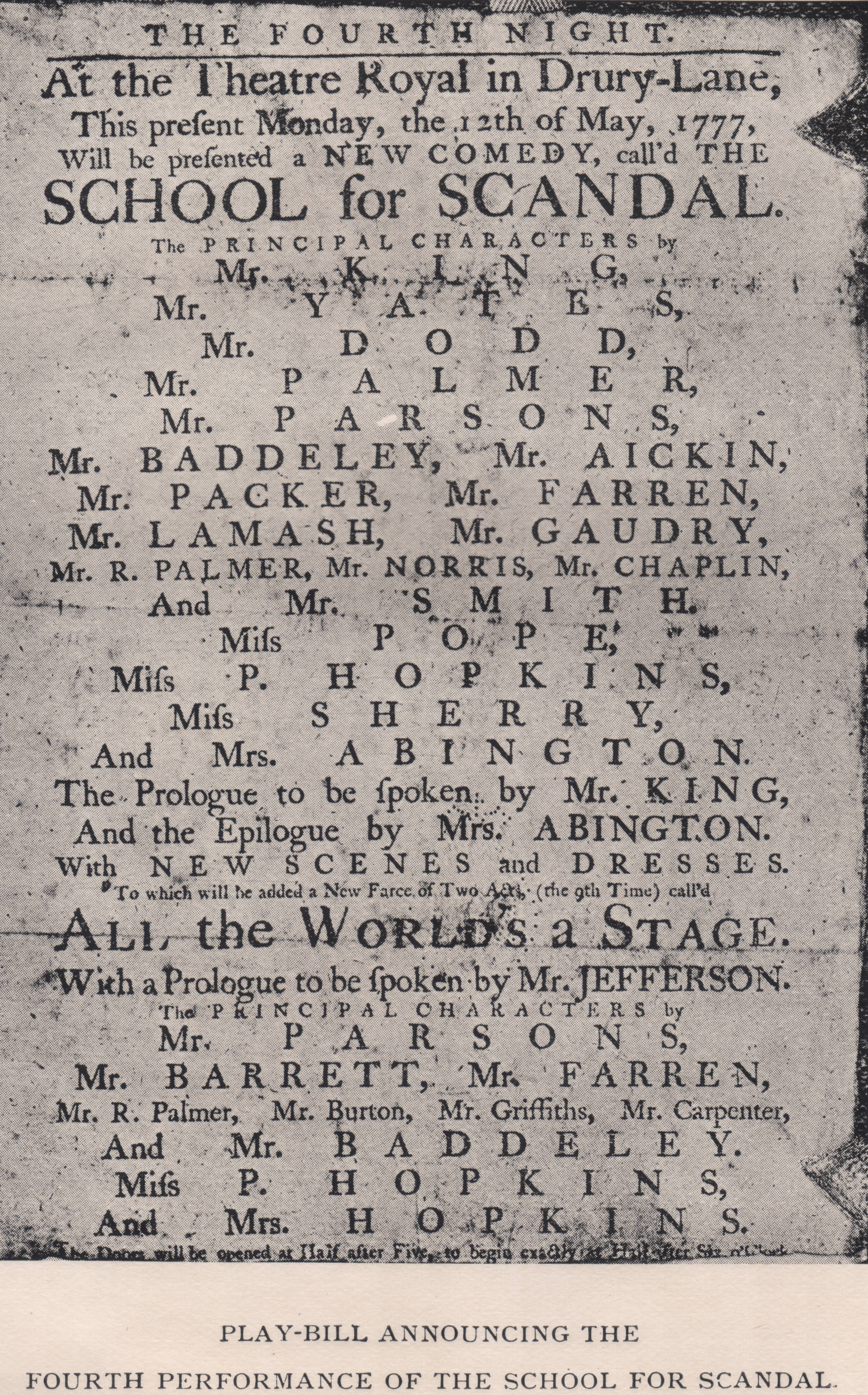 Scanned from The Dramatic Works of Richard Brinsley Sheridan With An Introduction By Joseph Knight And Fifteen Illustrations Oxford Edition Published by Henry Frowde 1906 Oxford University Press Printed by Horace Hart Bookseller label: Boyveau & Chevillet, Paris. Image text: Play-Bill Announcing The Fourth Performance Of The School For Scandal. Book is in the Public Domain in the US and UK Image scanned at 1200 dpi bitmap (colour) then converted to jpeg.